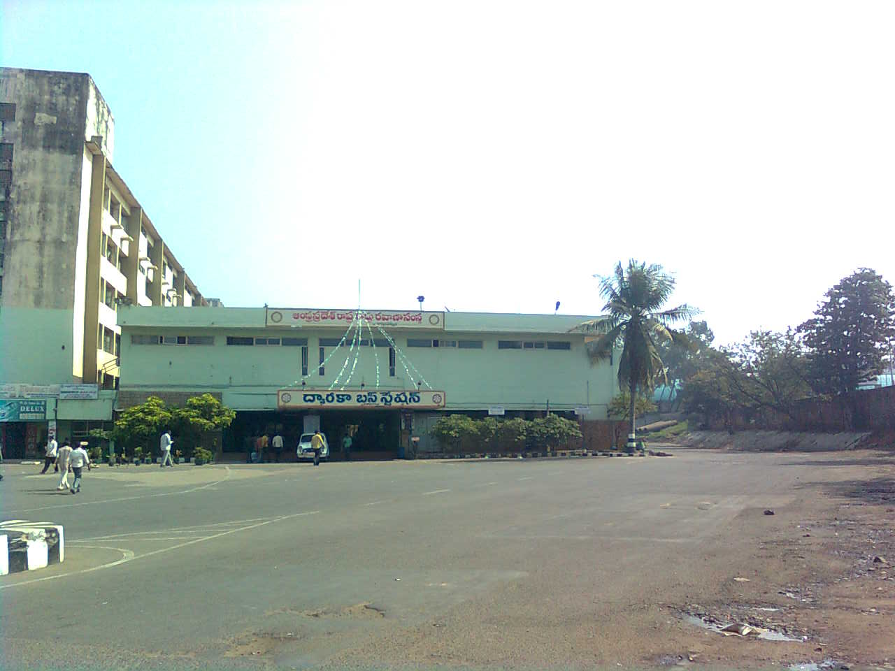 Visakhapatnam Bus Complex on a Bandh day, Andhra Pradesh